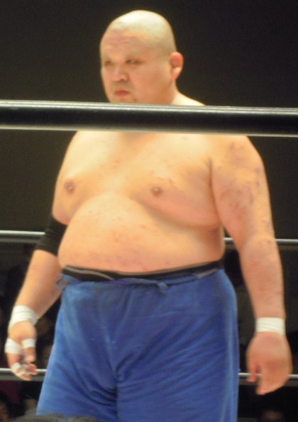 Japanese professional wrestler,Abdullah Kobayashi.June 6 2011 BJW Korakuen Hall.